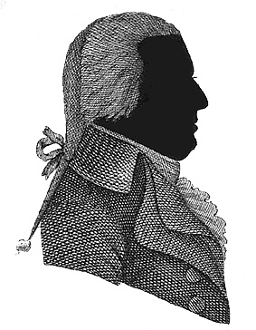 Image of Jan Bernd Bicker (1746-1812), Dutch Patriot